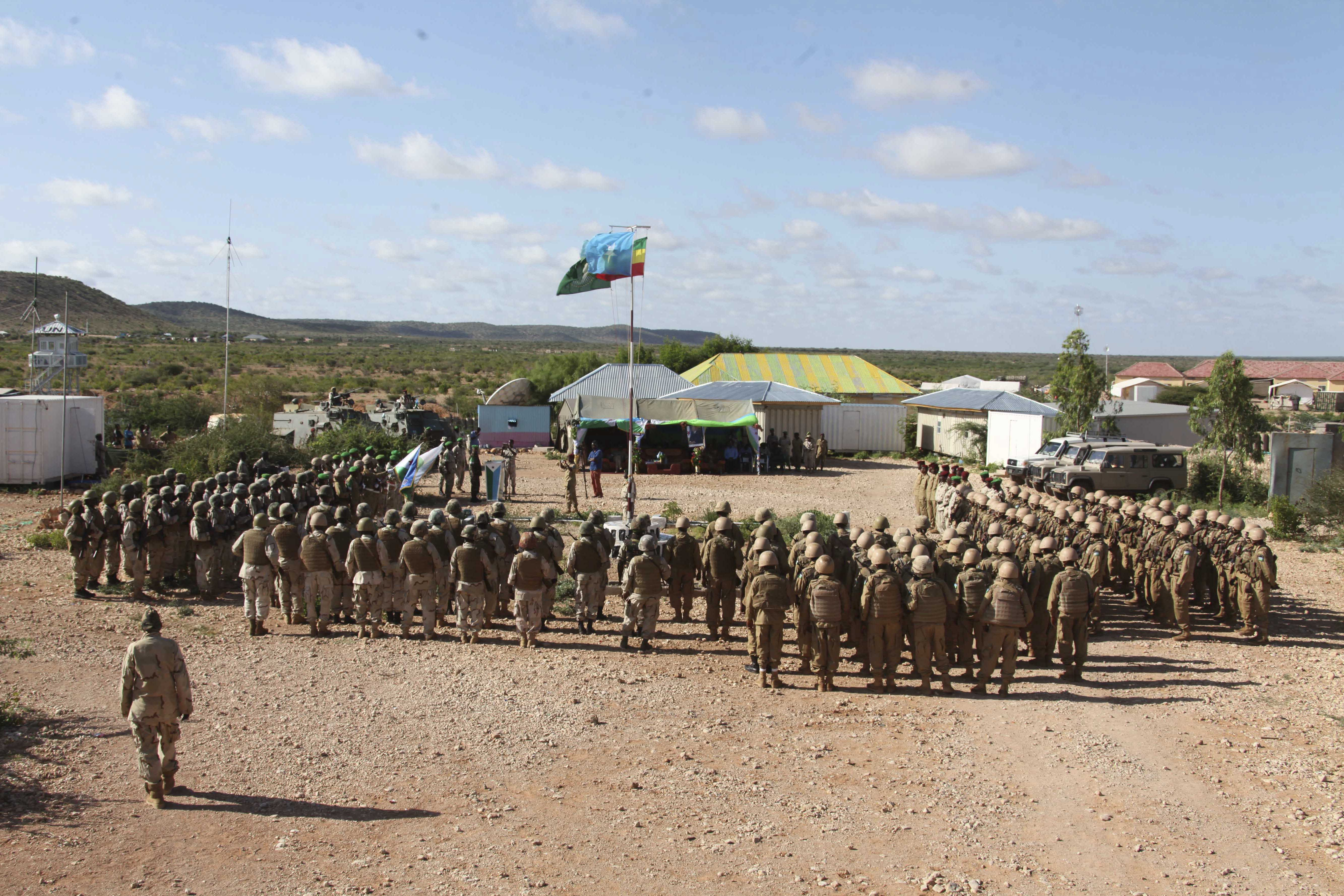 AMISOM Djiboutian soldiers in a parade to mark the 38th Armed Forces Day in Sector 4 Beletweyne, South central Somalia on June 06 2015. AMISOM photo / Mohamed Haji